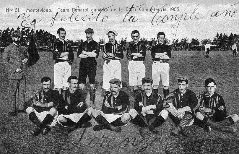 The Central Uruguay Railway Cricket Club, 1905 champions.